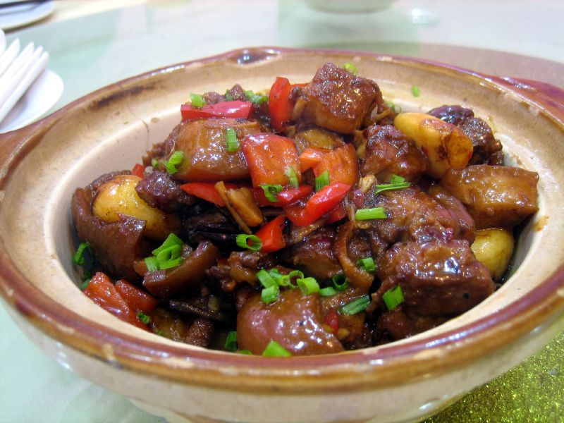 毛氏紅燒肉 湘泉鄉村土菜館 上海市普陀區凱旋北路1768號 Mao Family Braised Pork. This was supposedly a favorite of Chairman Mao. Whatever else can be said about him, he did know his Hunan food. Superb! Be forewarned--the meat is very fatty in this dish.